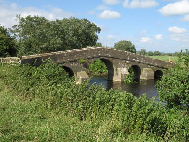 Footbridge over the River Avon. This good quality footbridge is located in otherwise undeveloped surroundings. I presume that the bridge is associated with Monkton House which is located a few hundred metres to the North.